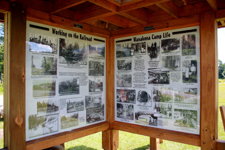 Two panels on the North Shore eight-panel Kiosk, part of the Wanakena Historic Walking Tour